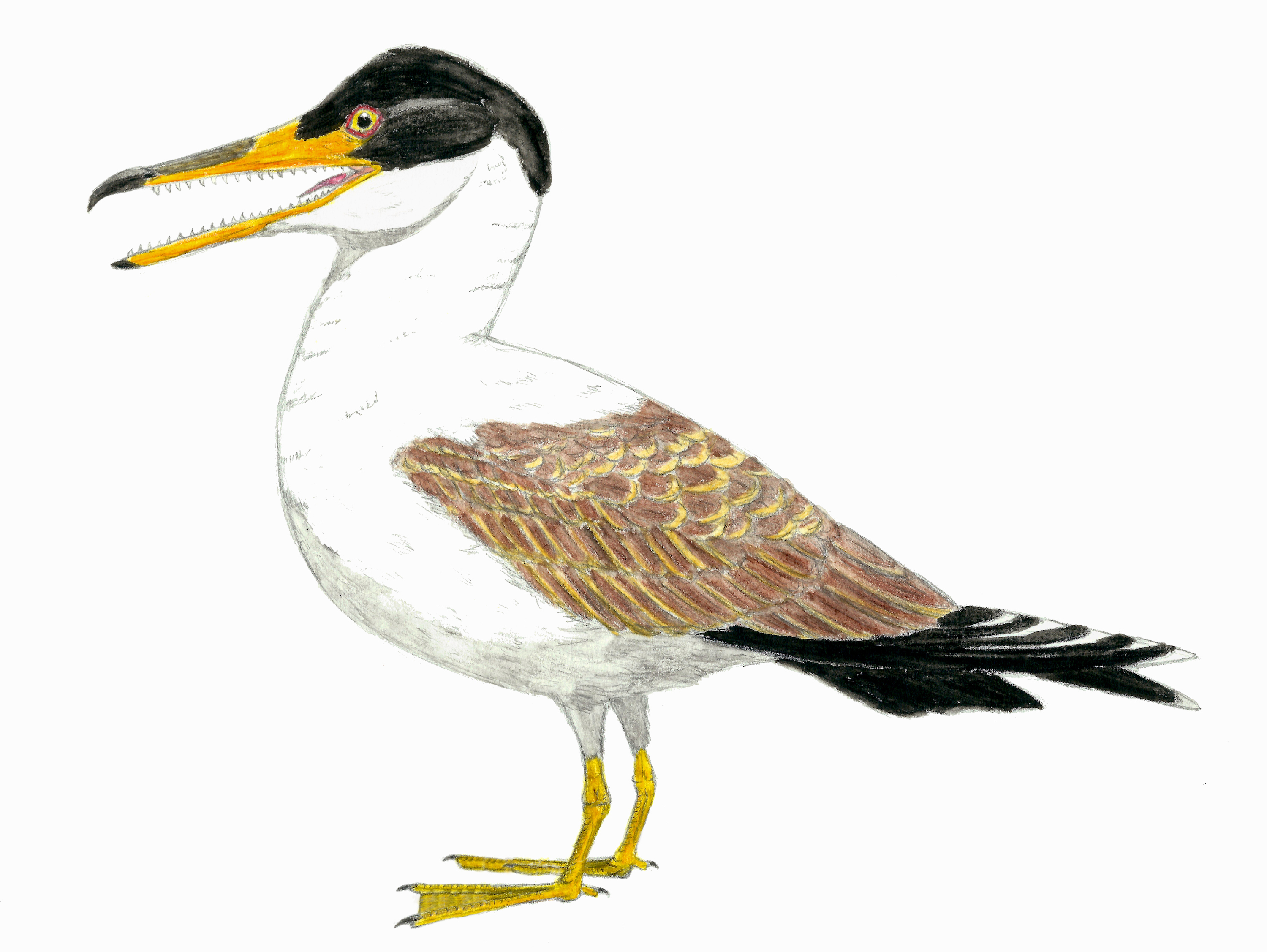 Life restoration of Ichthyornis dispar, a primitive seabird that lived in the Western Interior Seaway (North America)during the Late Cretaceous.